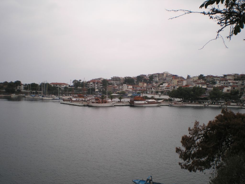 Village of Neos Marmaras, Sithonia, Chalkidiki, Greece